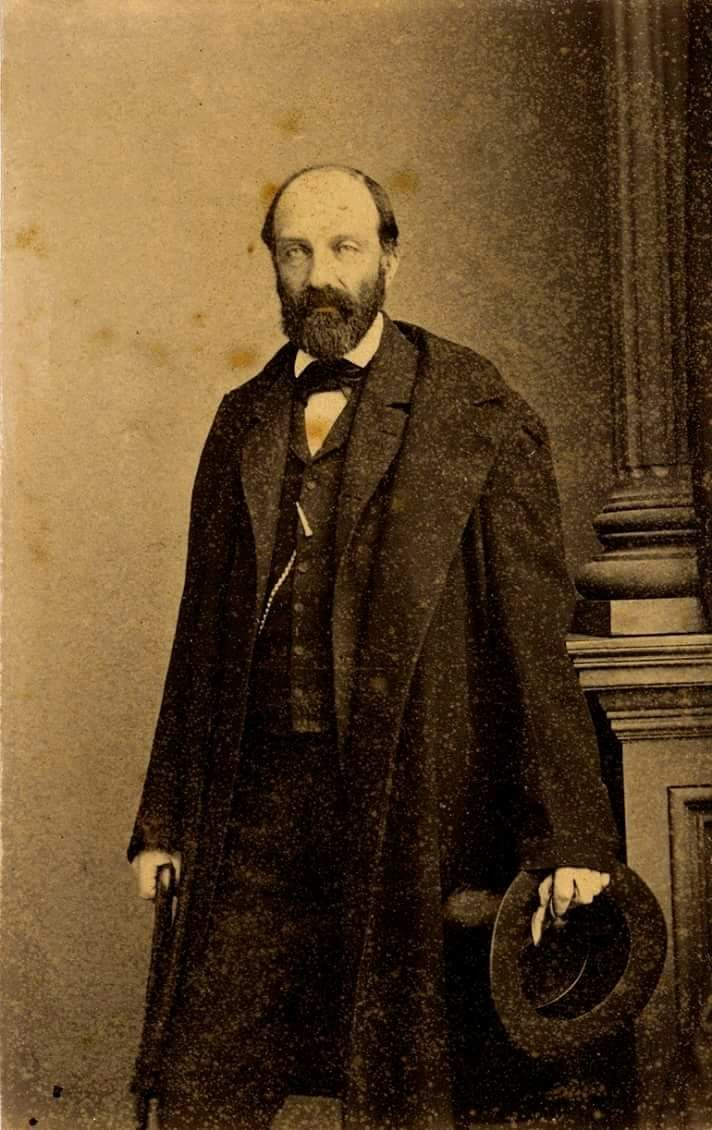 Prince of Joinville (1818-1900)